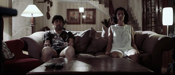 Fotograma de 24 Horas con Lucía